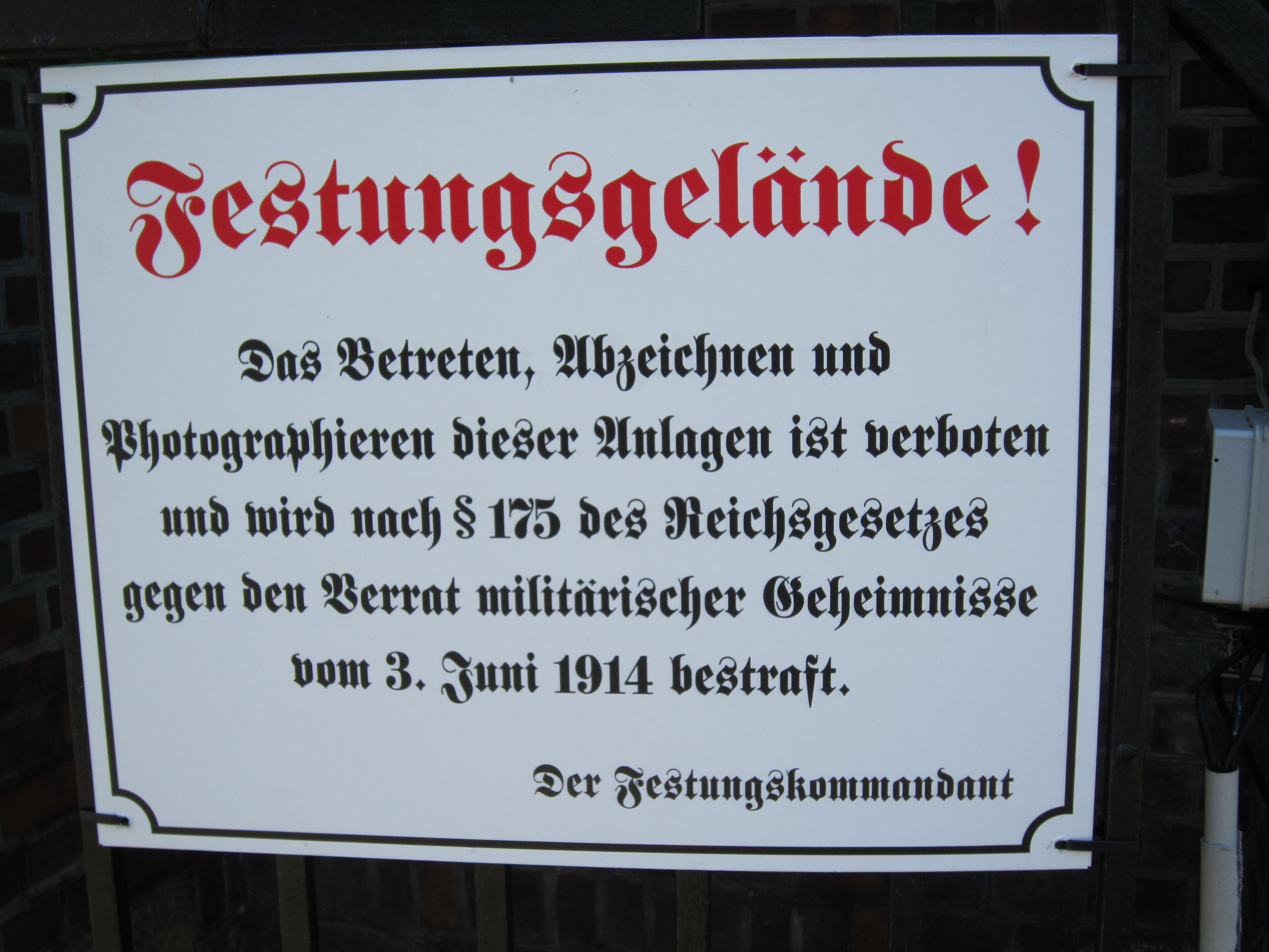 Notice at the entrance of Fort IV (Western Fort / Fort Zachodni) in Świnoujście